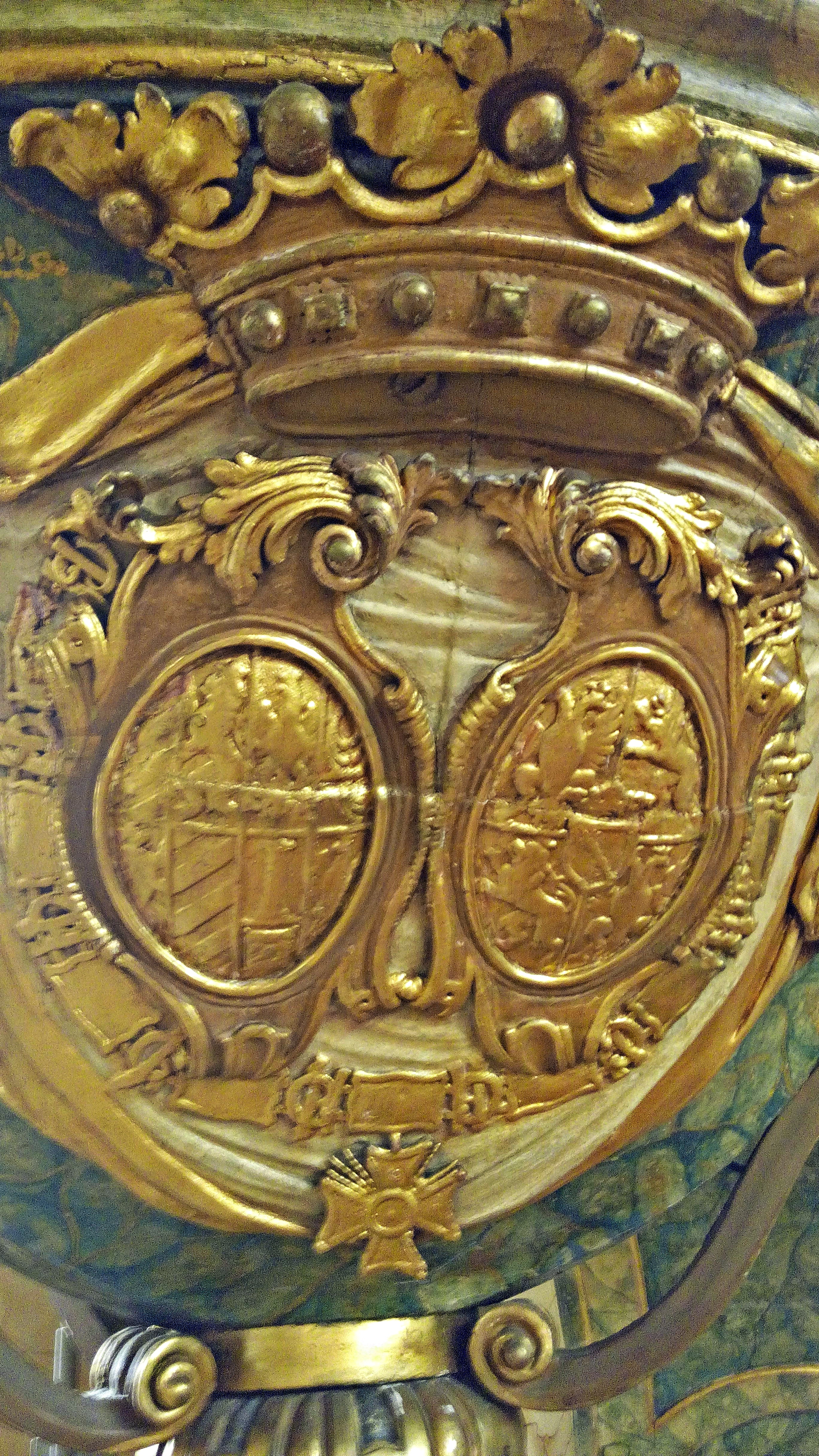 Allianzwappen der Gräfin Therese Wilhelmine von Pollheim-Winkelhausen (+1757), Kanzel von St. Sebastian, Mannheim